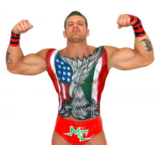 Professional wrestler Marco Corleone in September 2006.